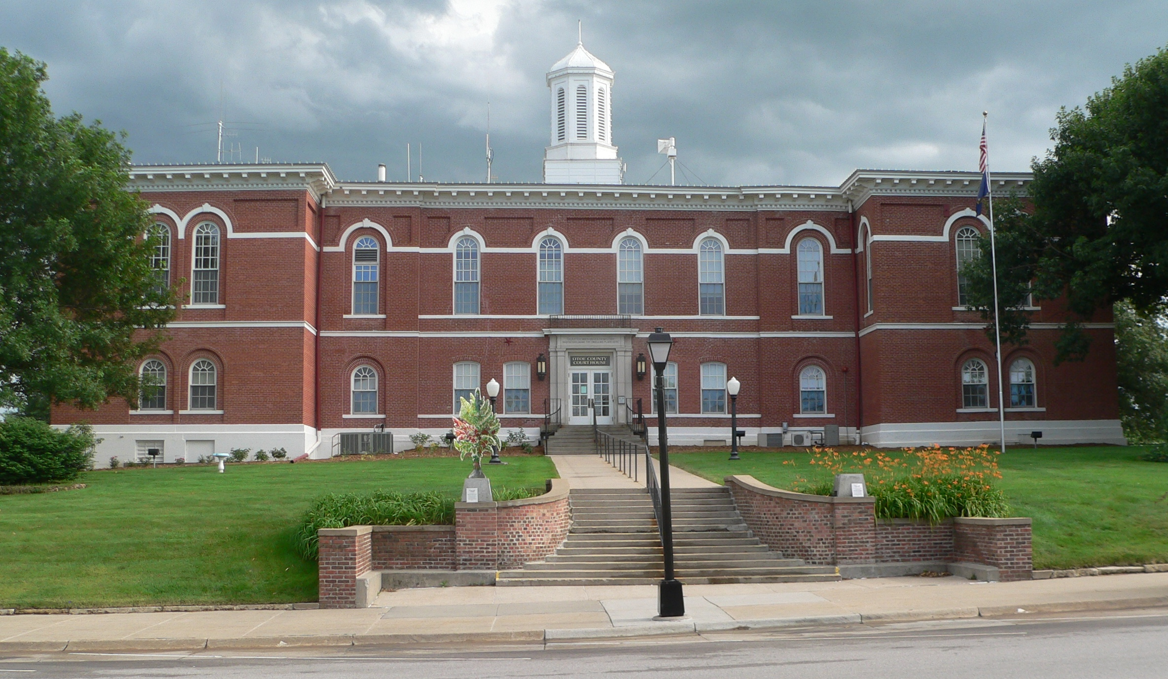 Otoe County courthouse in Nebraska City, Nebraska; seen from the north, across Central Avenue.